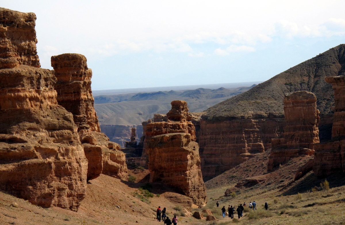 photos from a trip to This part is called valley of castles.